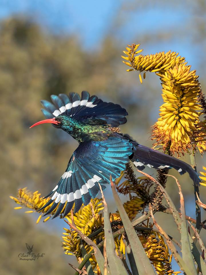 Phoeniculus purpureus (J.F. Miller, 1784) - Aloe Farm, Hartebeestpoort Dam, South Africa